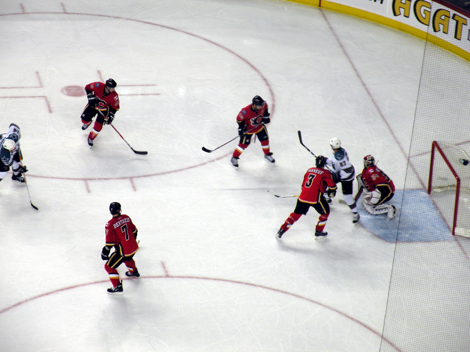 The Calgary Flames and San Jose Sharks in action during a National Hockey League game in Calgary.